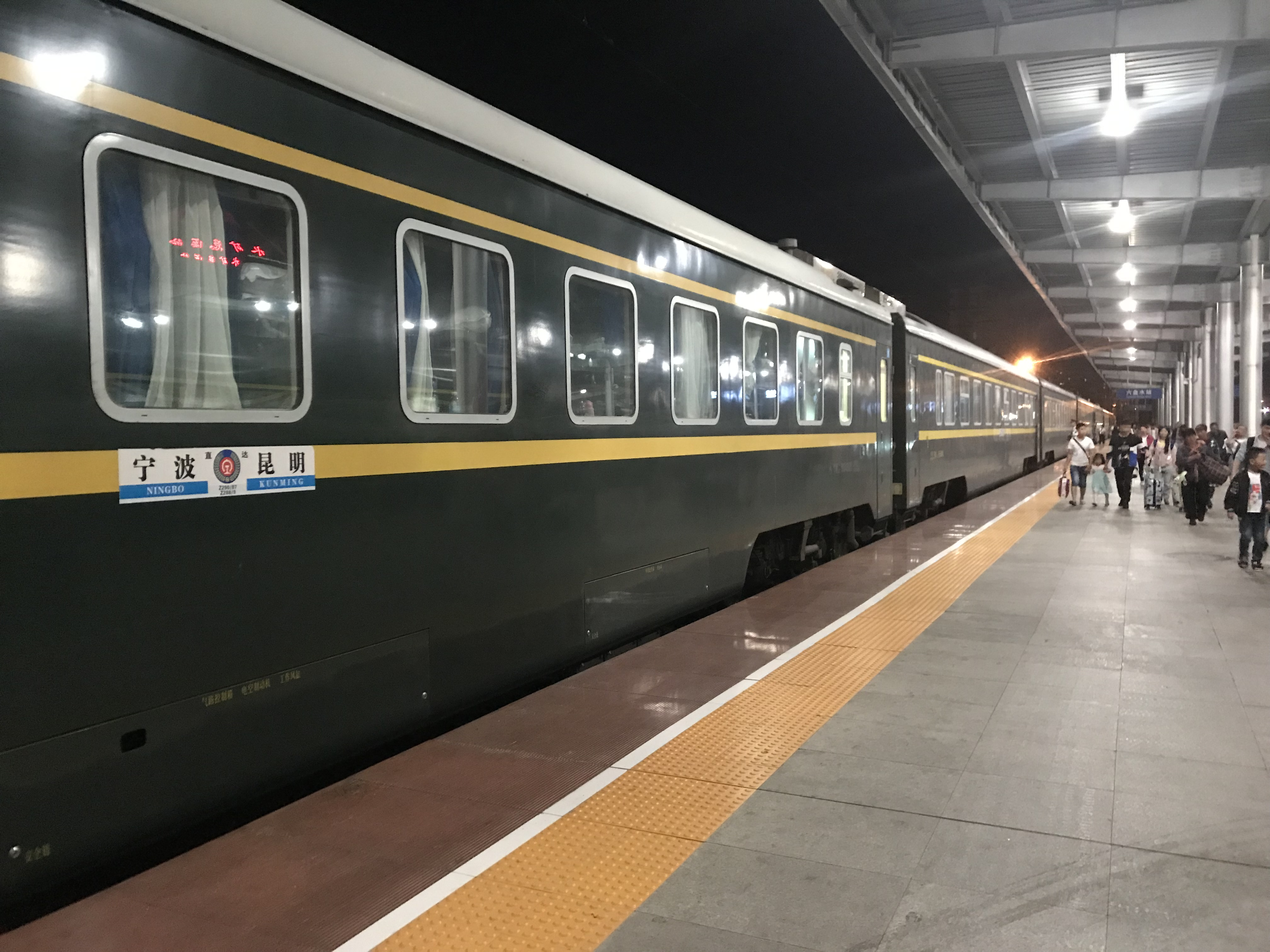 Z287 from Ningbo to Kunming